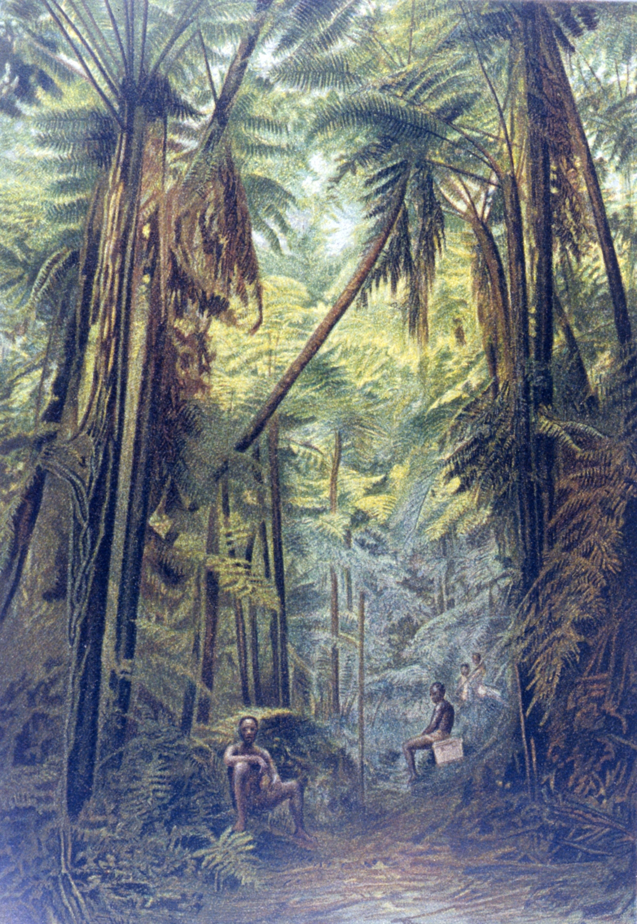 This mountain is one of three places on earth with an annual rainfall over 400 inches. P. 104. In: Aus den Tiefen des Weltmeeres by Carl Chun, 1903. Call No. Q115.V15 1903.